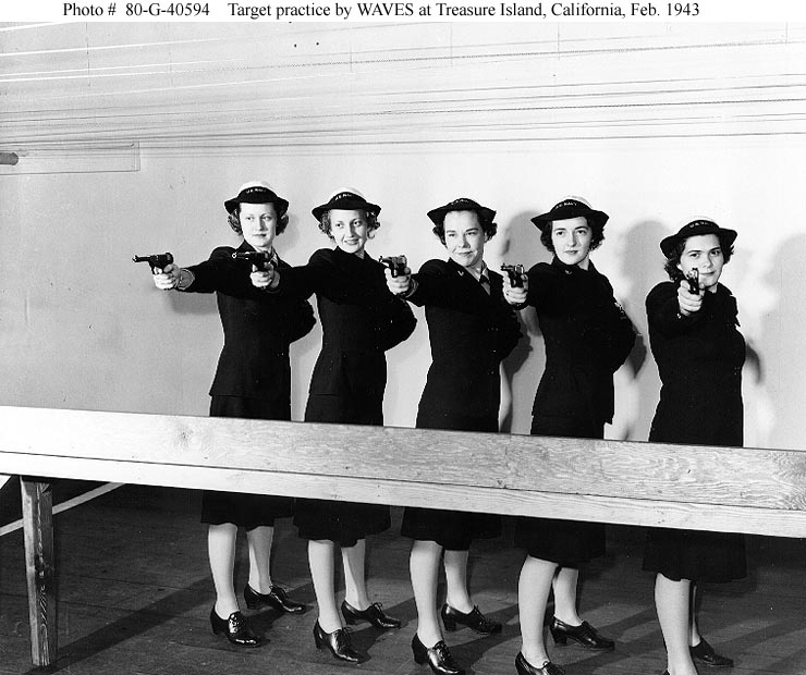 U.S. Navy WAVES taking target practice at an indoor range at Treasure Island Naval Base in the San Francisco Bay. The pistols are .22 caliber training firearms, the Model B type from High Standard Manufacturing Company based in Houston, Texas. February 11, 1943.